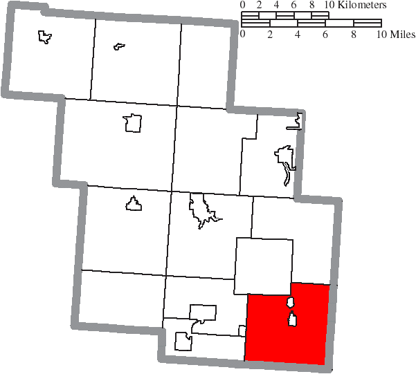 Map of the municipal and township boundaries of Perry County, Ohio, United States, as of the 2000 census, with the location of Monroe Township highlighted. Township borders are shown only in unincorporated areas in order to differentiate incorporated and unincorporated areas more clearly.